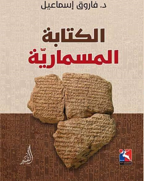 Farouk Ismail - Cuneiform writing